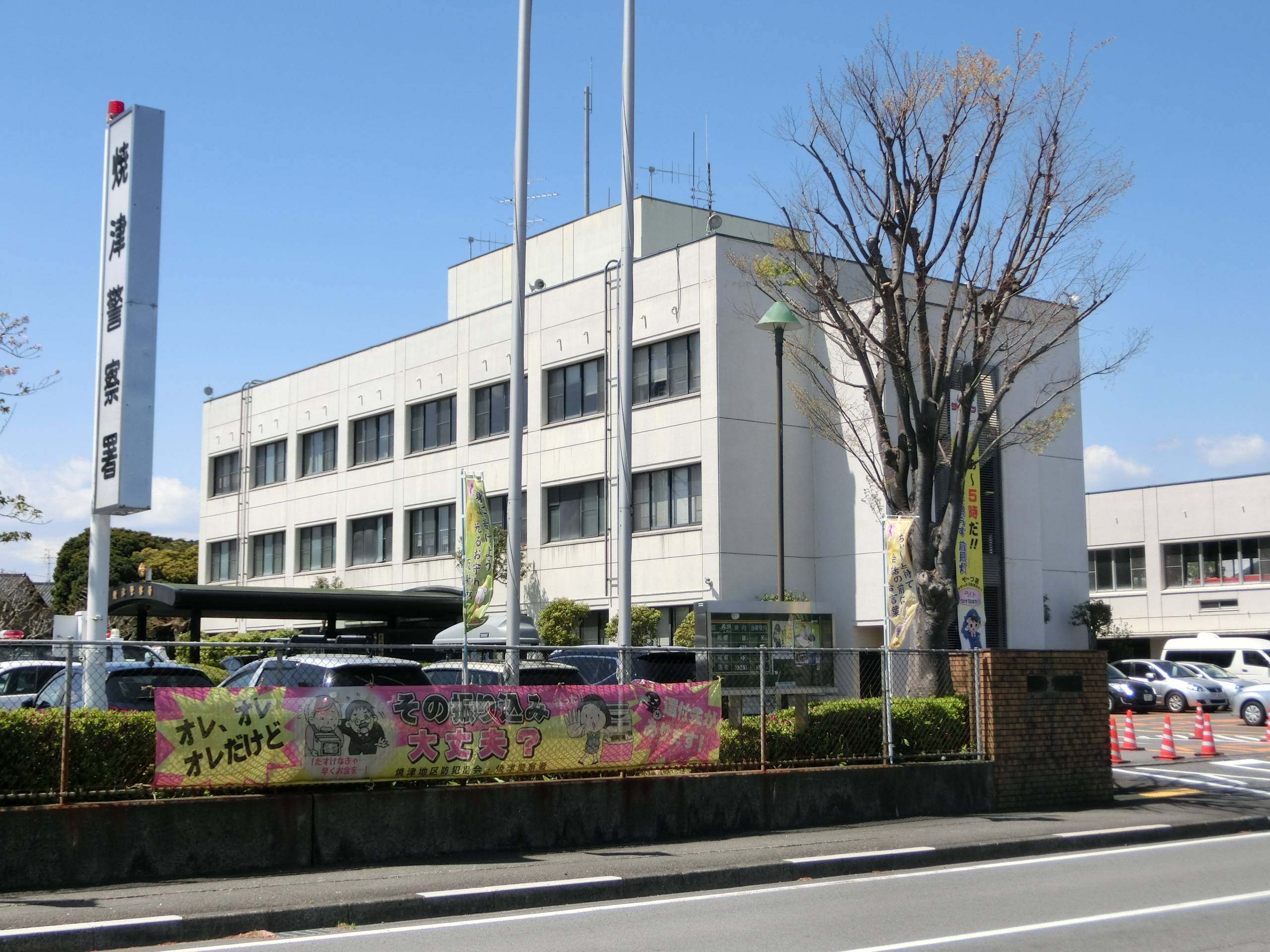 Yaizu Police Station